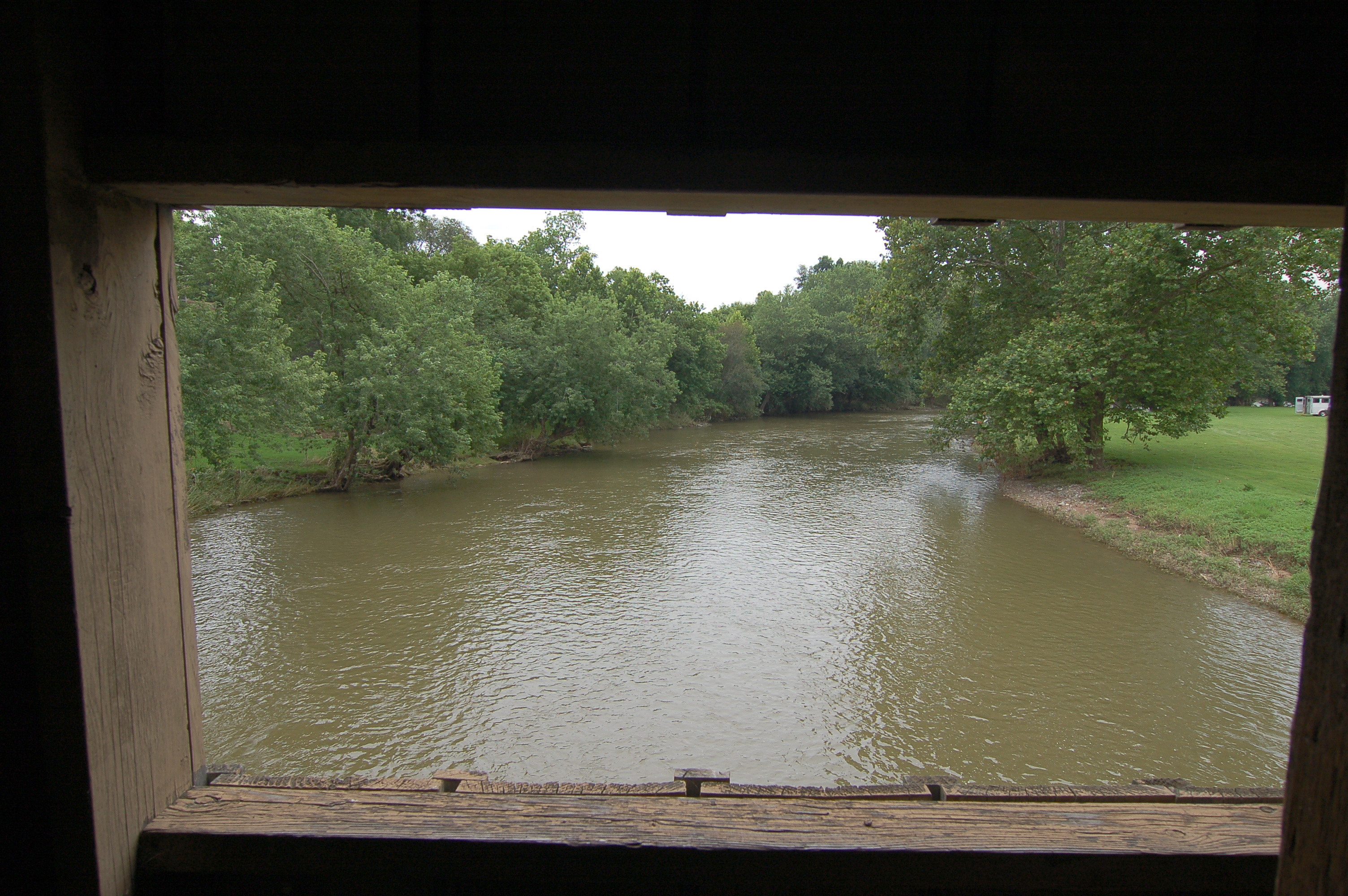 A photograph looking out the window in the Hunsecker's Mill Covered Bridge. The bridge is located in Lancaster County, Pennsylvania.